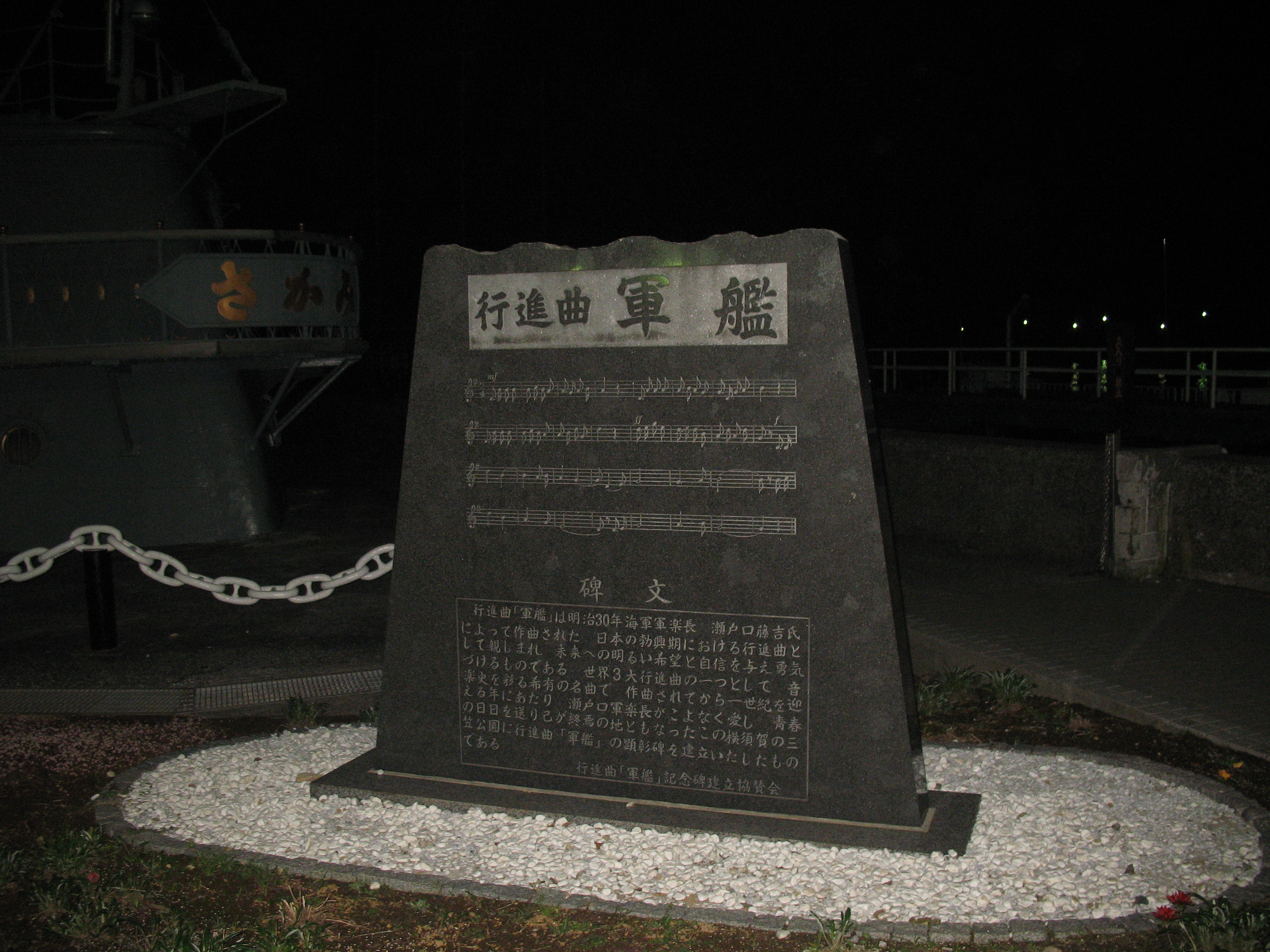 Monument to the Gunkan kōshinkyoku (軍艦行進曲Warship March) at the Mikasa Park, Yokosuka, Kanagawa.